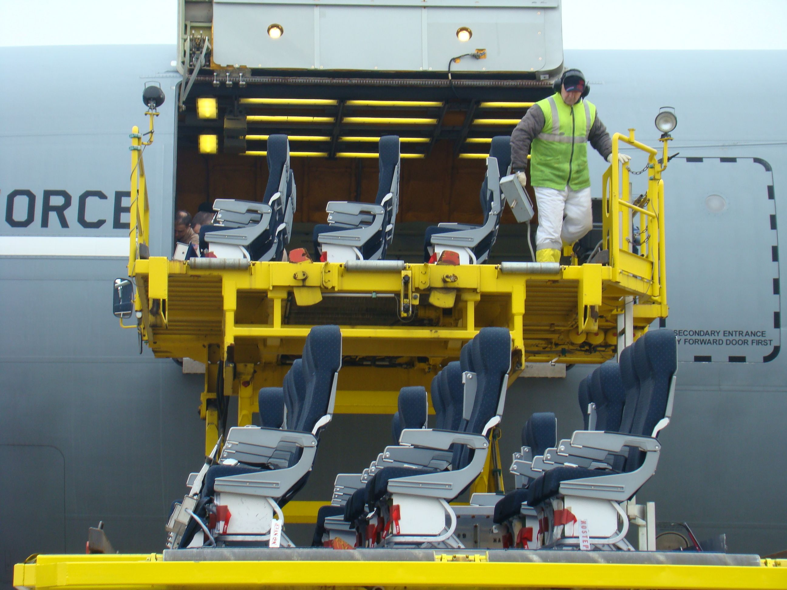 Passenger seats being installed on a military DC-10 aircraft that can be converted from passenger transport to freight transport.